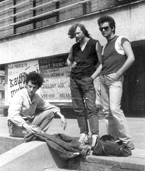 Polish band Kolaboranci